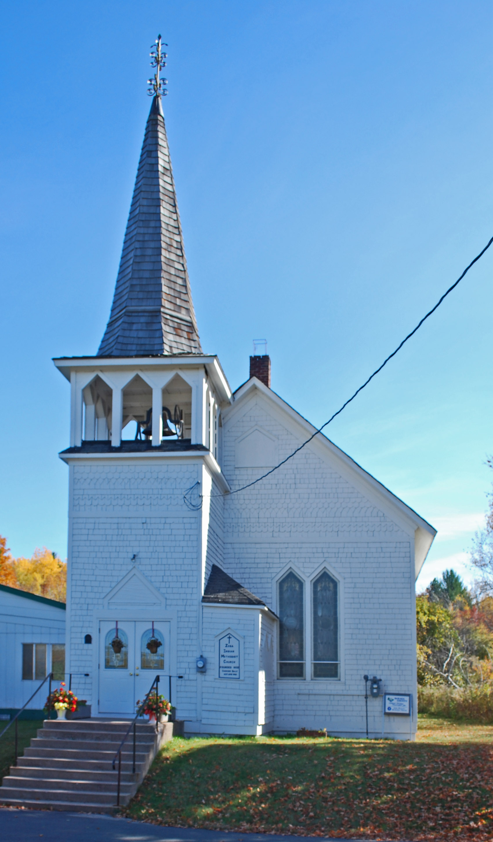 Zeba United Indian Methodist Church, Baraga COunty MI